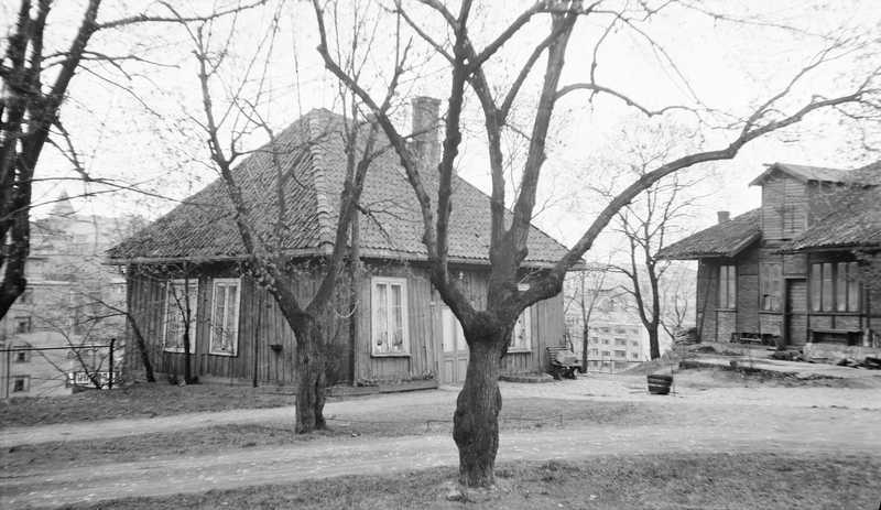 Buildings belonging to the Ytterborg Bryggeri (brewery) in Oslo Akersbakken 24